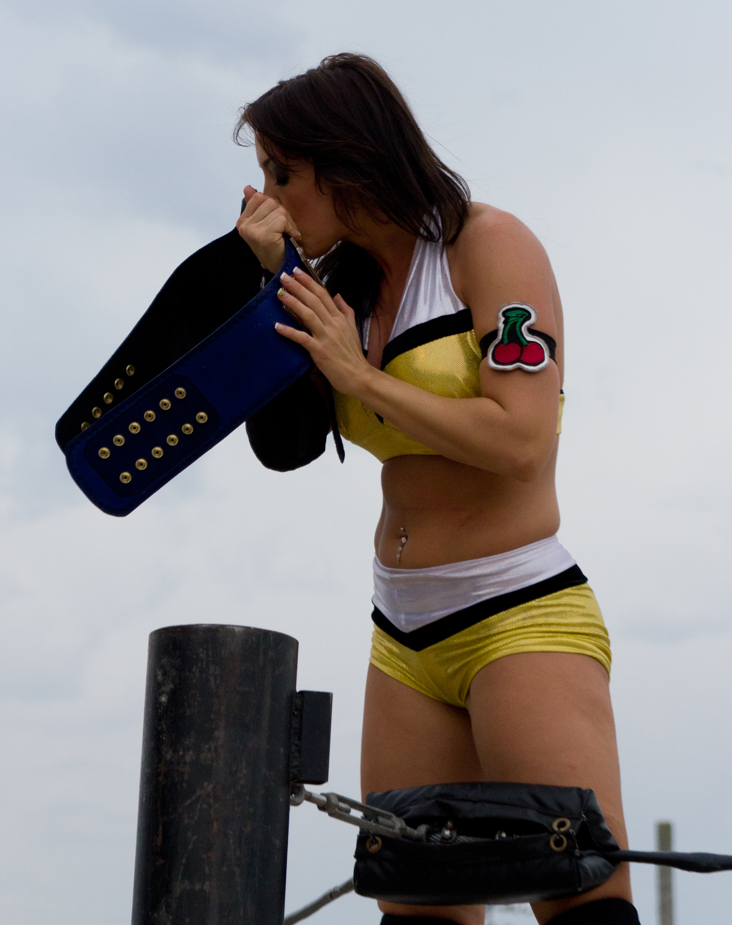 Cherry Bomb celebrates a victory by kissing her CCW Women's Championship belt in Tilsonberg, August 20 2011.